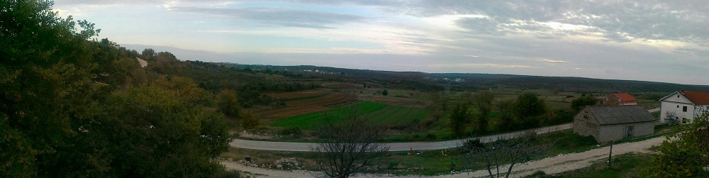 Radovin main road